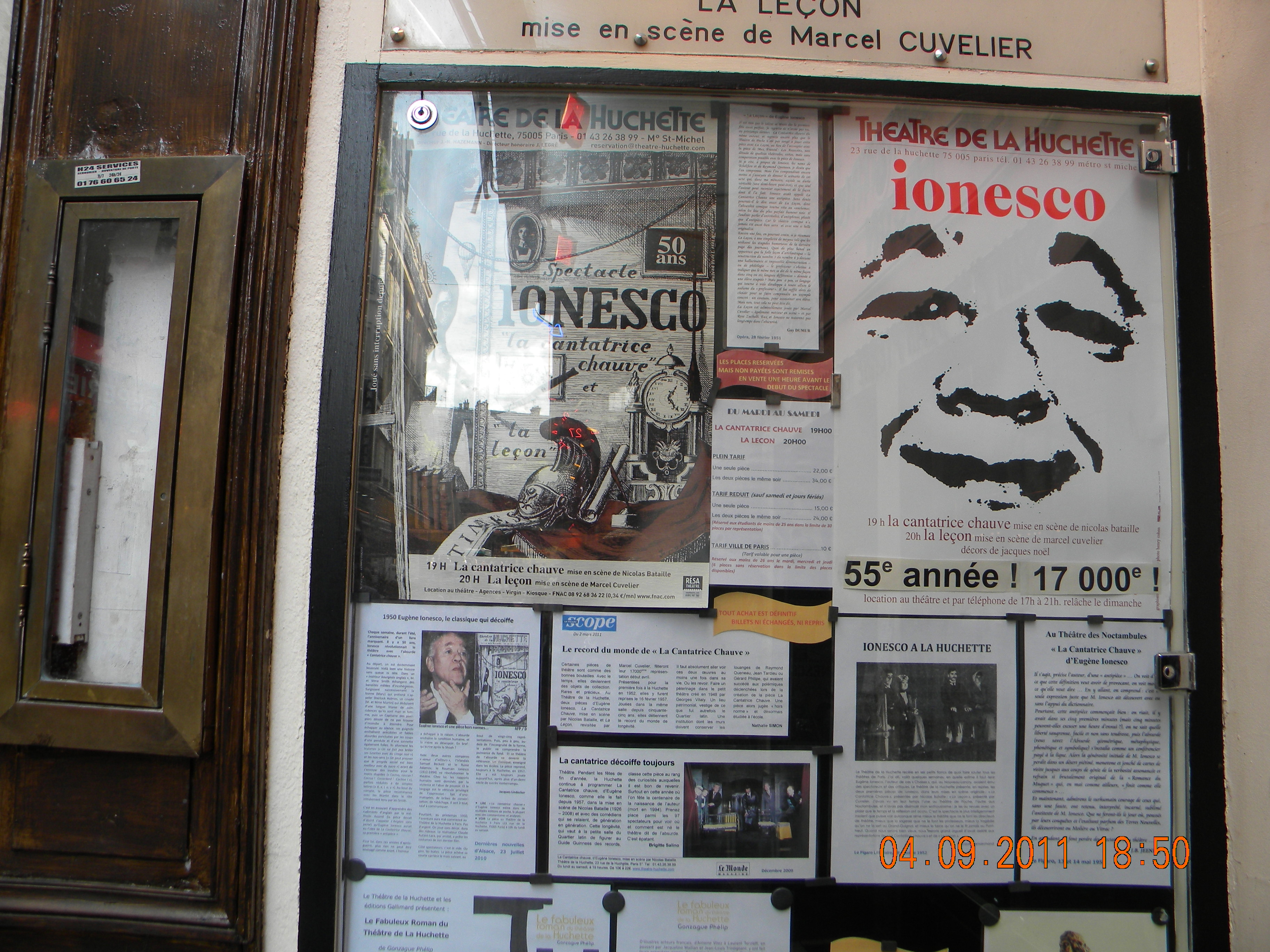 Theatre de la Huchette, Eugene Ionesco, Paris